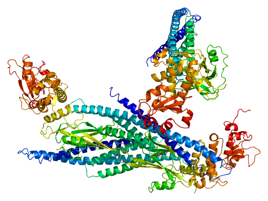 Structure of the STAT5B protein. Based on PyMOL rendering of PDB 1y1u.